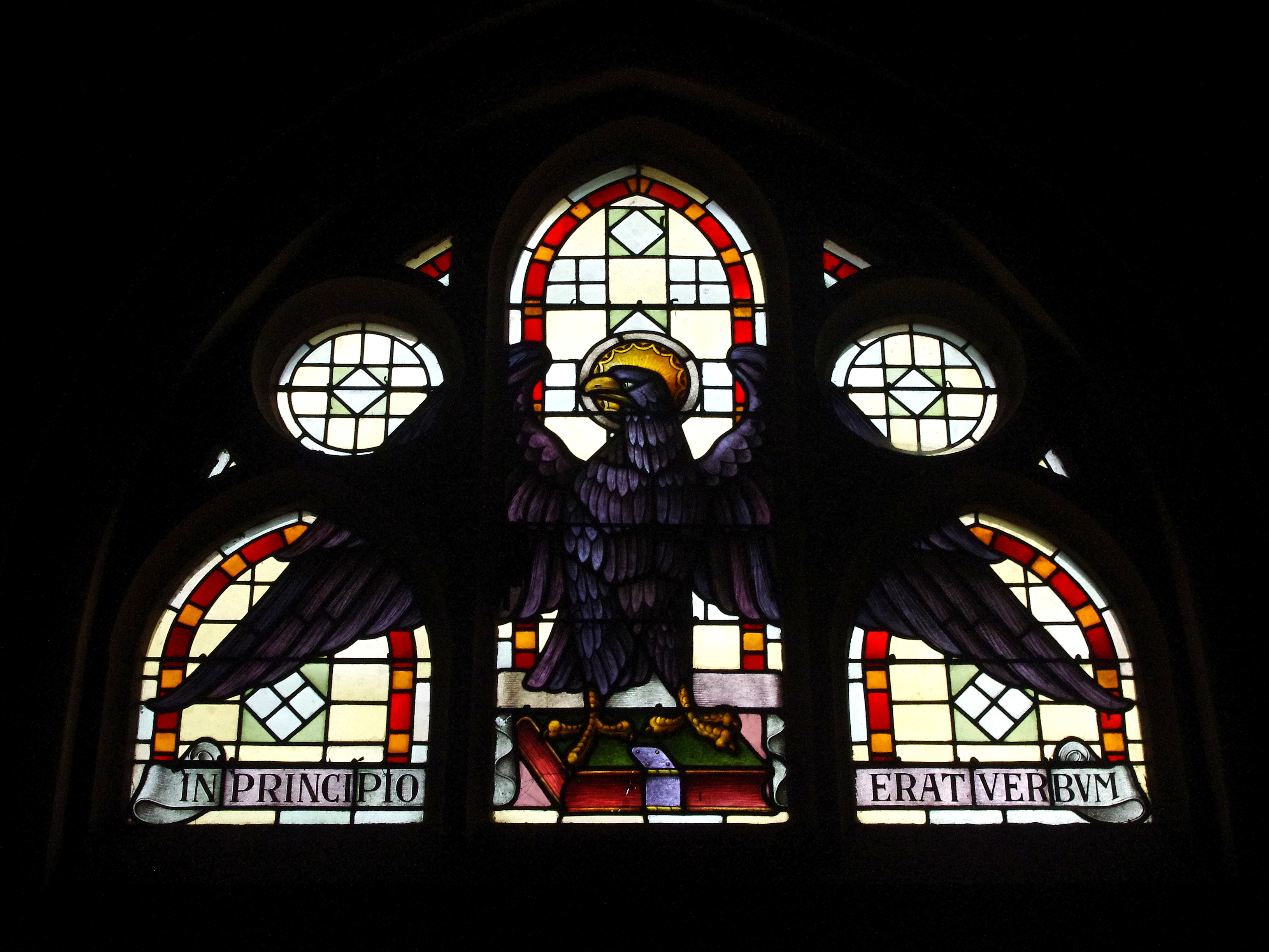 Saint John the Evangelist Church (Covington, Kentucky) - stained glass, tympanum, Gospel of John - In the beginning was the word